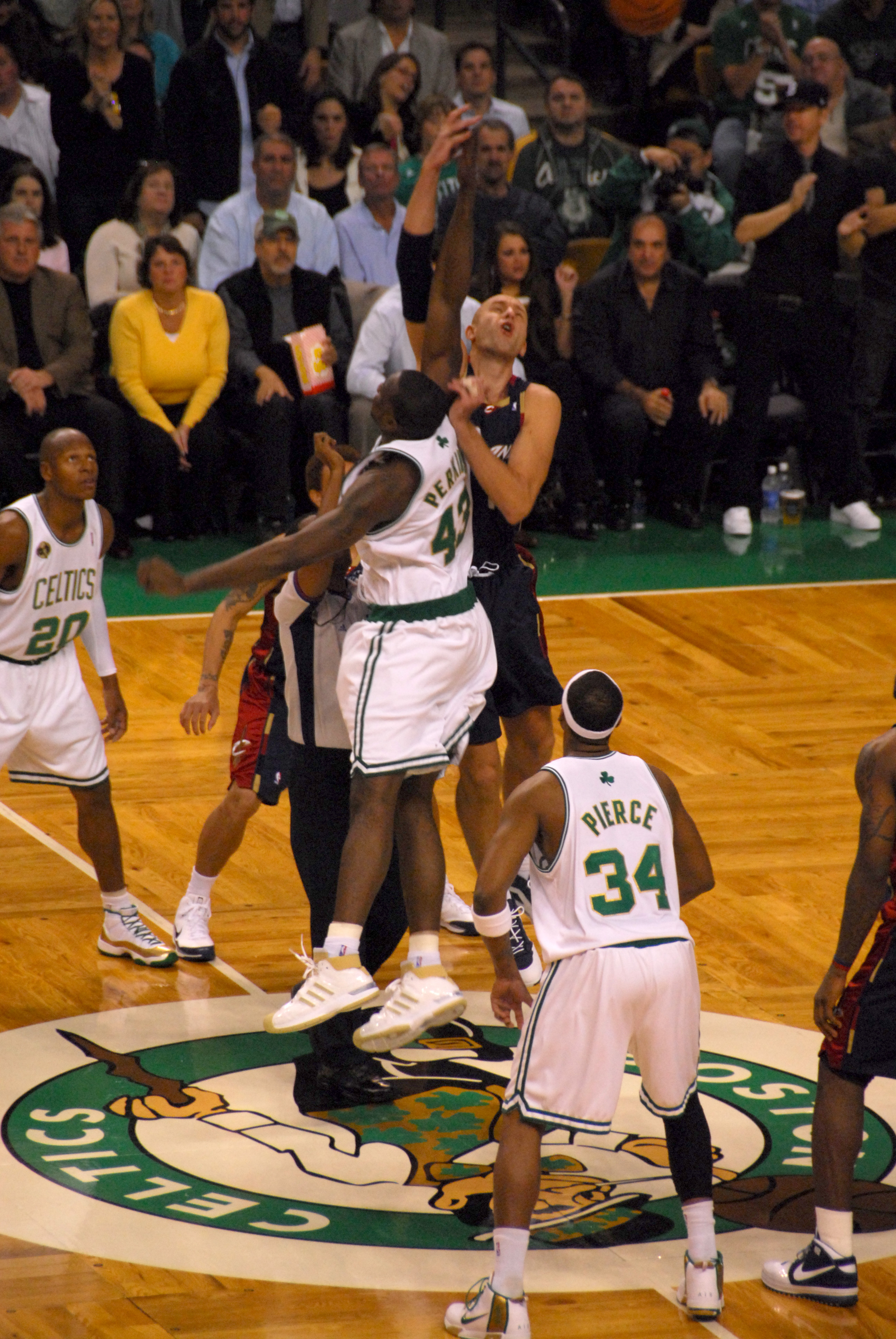 Žydrūnas Ilgauskas opening tip against Boston Celtics.